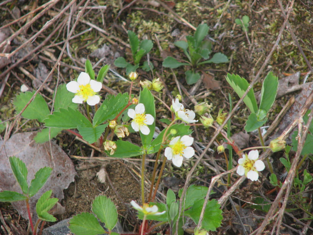 Wild or Common Strawberries, Ottawa, Ontario, Canada